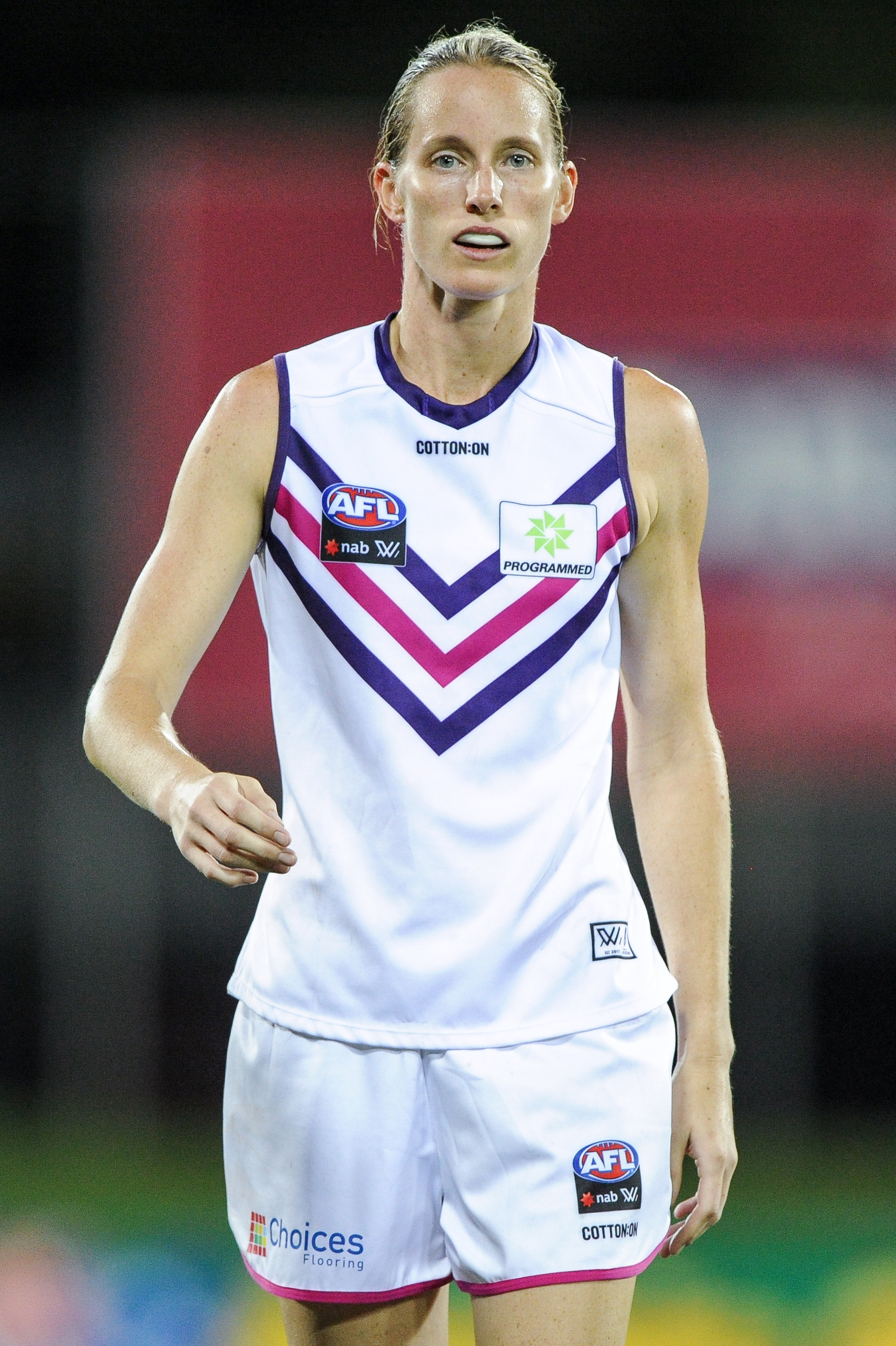 Jodie White in the AFL Women's preseason match between the Adelaide Football Club and Fremantle Football Club on 20 January 2018 at TIO Stadium.